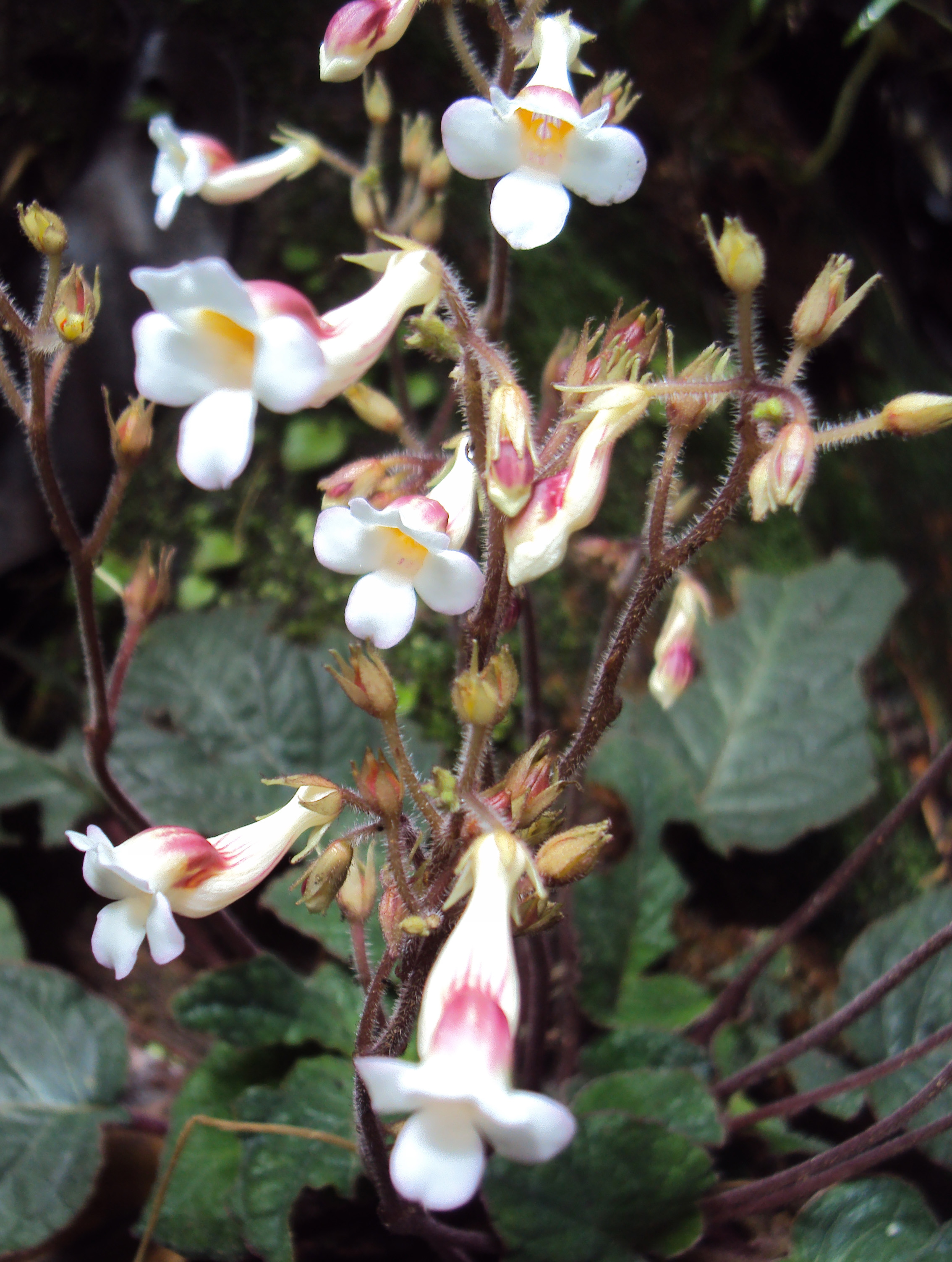 Jerdonia indica